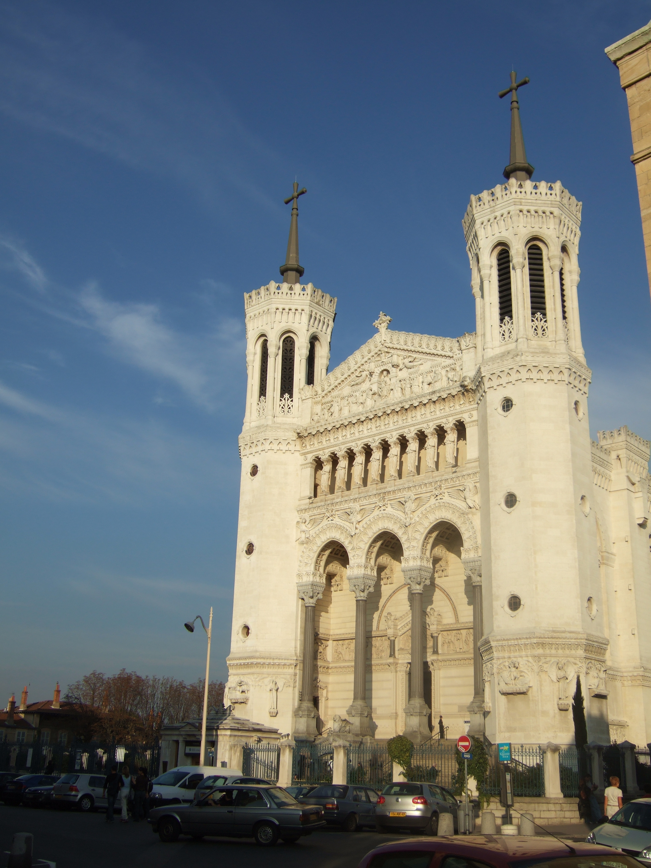 Taken by me. Rear view of the Basilica, in Lyon, France.